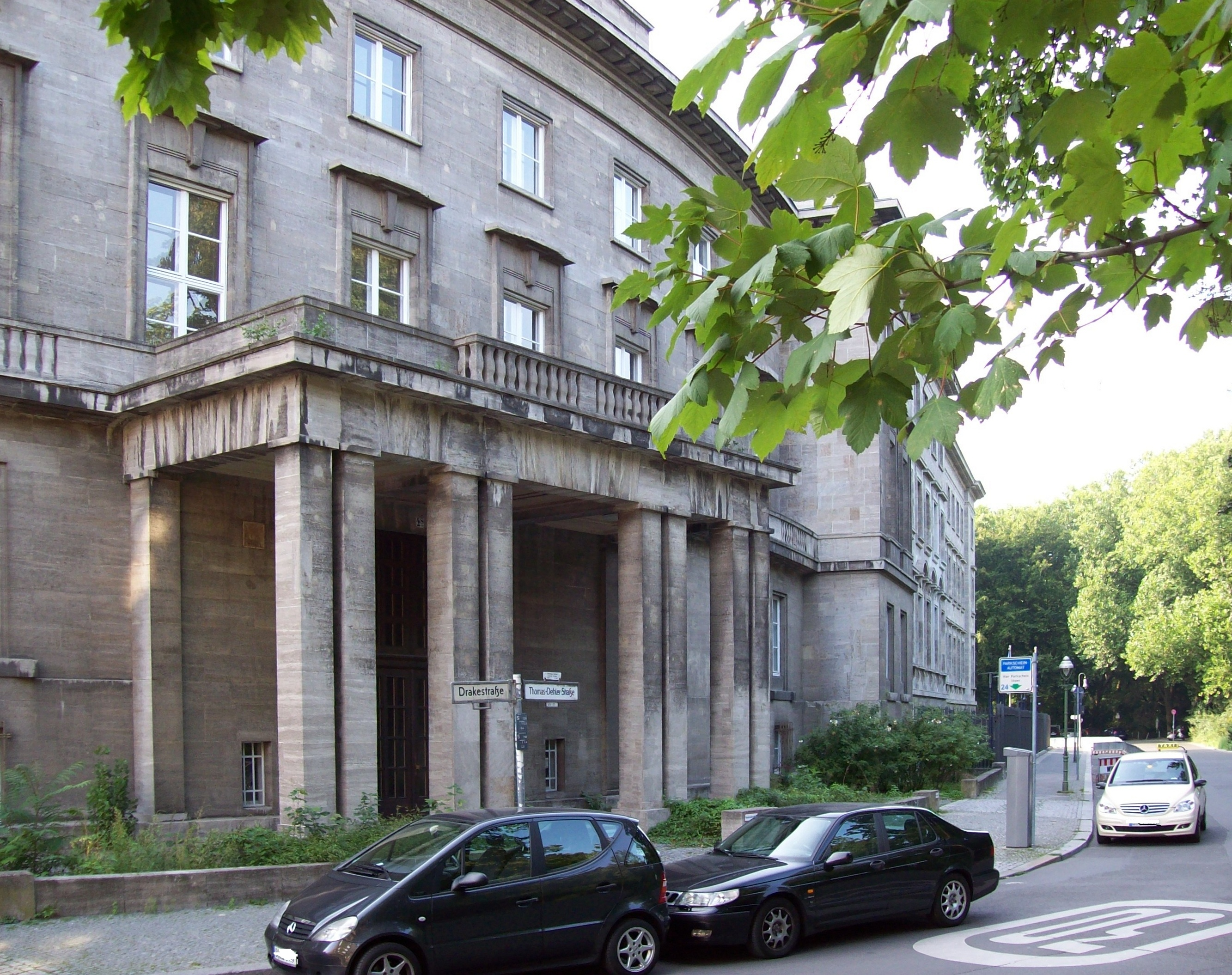 The former embassy of Denmark in Berlin. The embassy of Spain to the right.